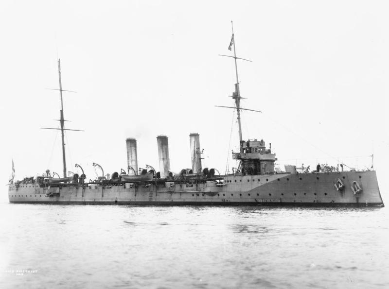 Photograph of British Topaze class cruiser HMS Amethyst.